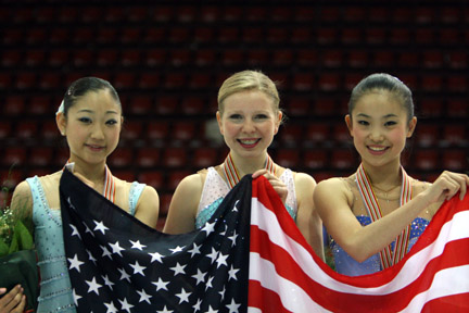 The ladies medalists at the 2008 World Junior Championships display the United States flag during the medals ceremony, showing that there was a medals sweep by that country. From left: Mirai Nagasu (3rd), Rachael Flatt (1st), Caroline Zhang (2nd).